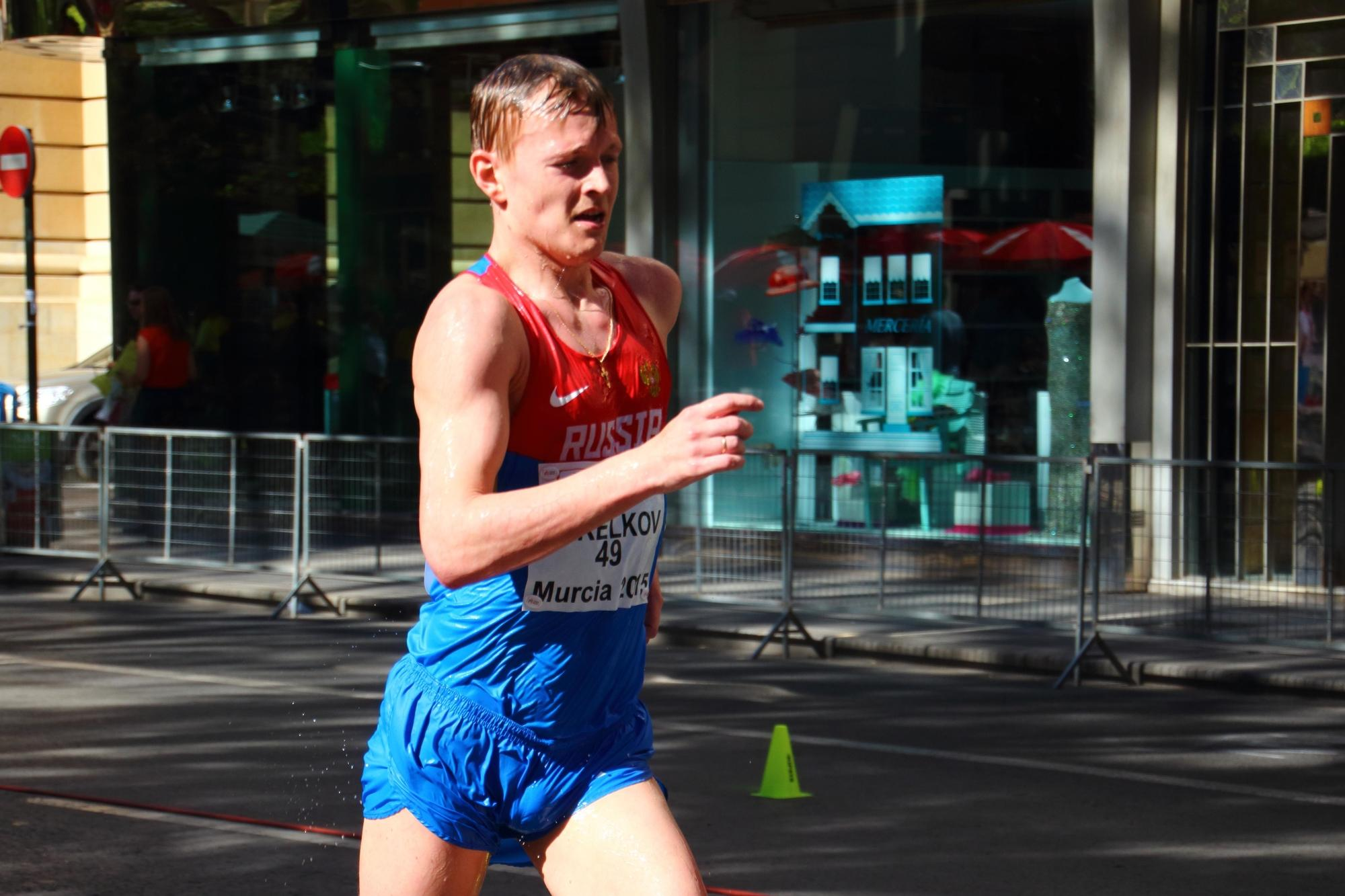 49-Denis Strelkov (RUS) in the 11th European Cup Race Walking Murcia ESP 17 May 2015